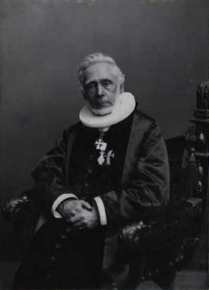 Hans Jørgen Swane (1821-1903), Danish bishop of Viborg